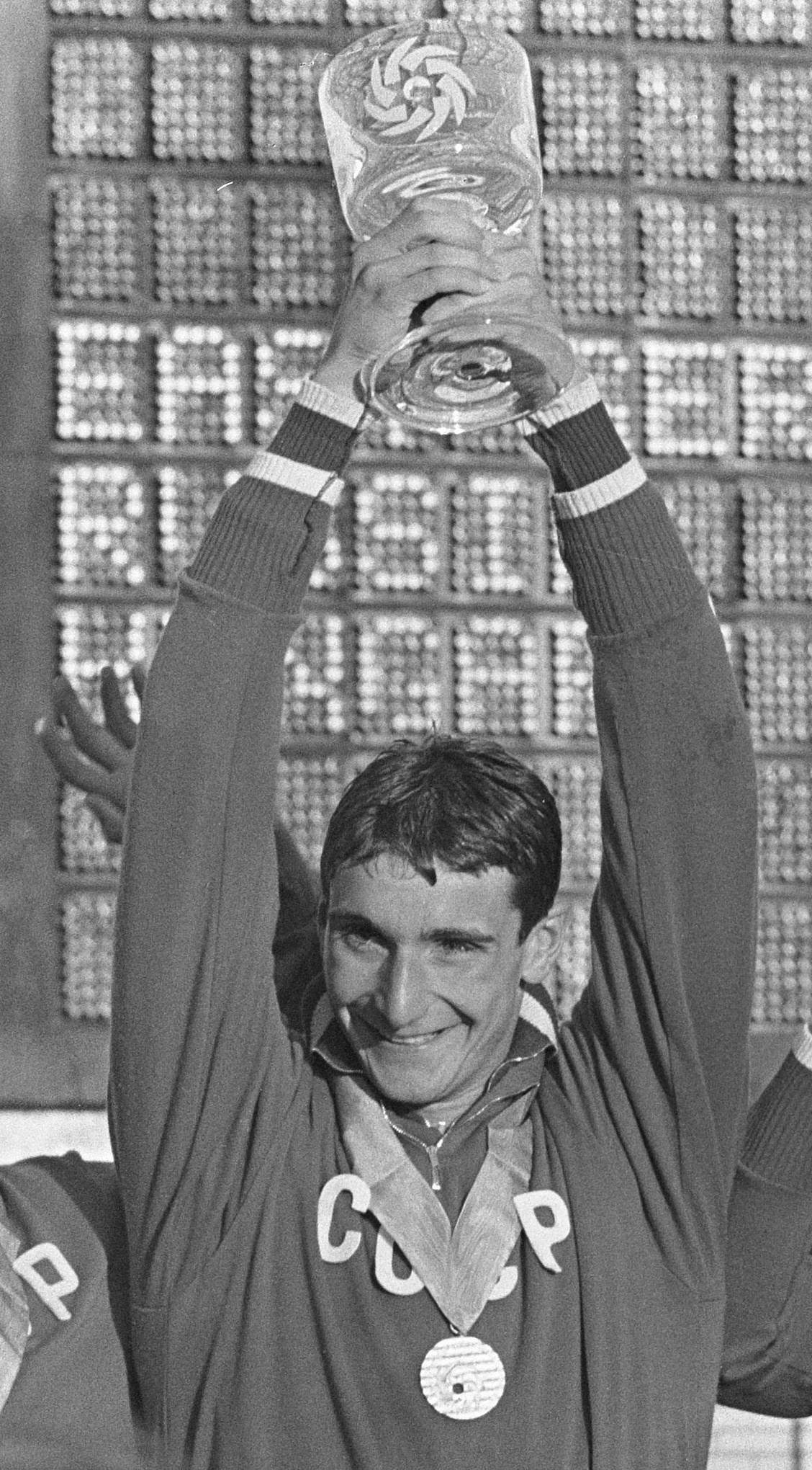 Viktor Mazanov, European champion in the 4 x 100 m medley